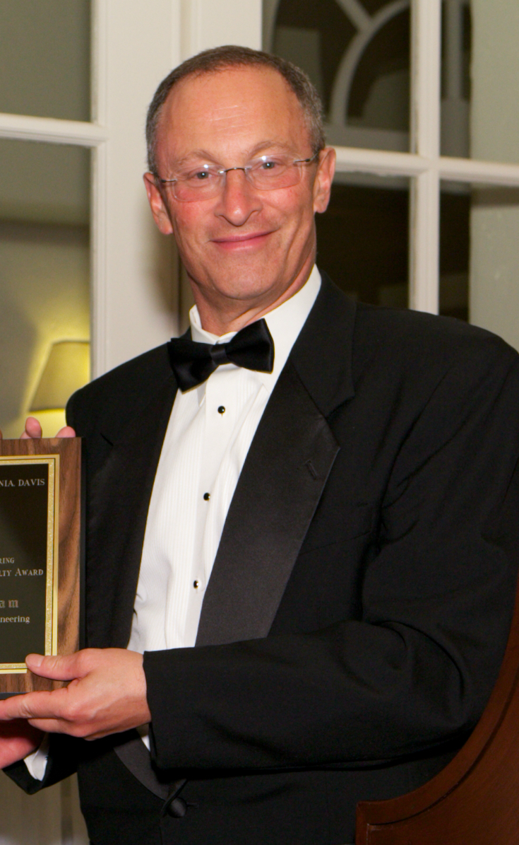 UC, Davis Provost Ralph Hexter at the Gala Event Celebrating 50 Years of Achievement at UC Davis Engineering. More than 220 guests gathered at the Olympic Club Lakeside in San Francisco on Saturday, October 13, 2012 to celebrate five decades of innovation and excellence in engineering at the University of California, Davis. The gala event—part of the UC Davis College of Engineering's year-long Golden 50th Anniversary celebration—included a formal dinner, silent auction and awards presented to faculty, alumni and supporters. The event raised funds to support student scholarships at the UC Davis College of Engineering.